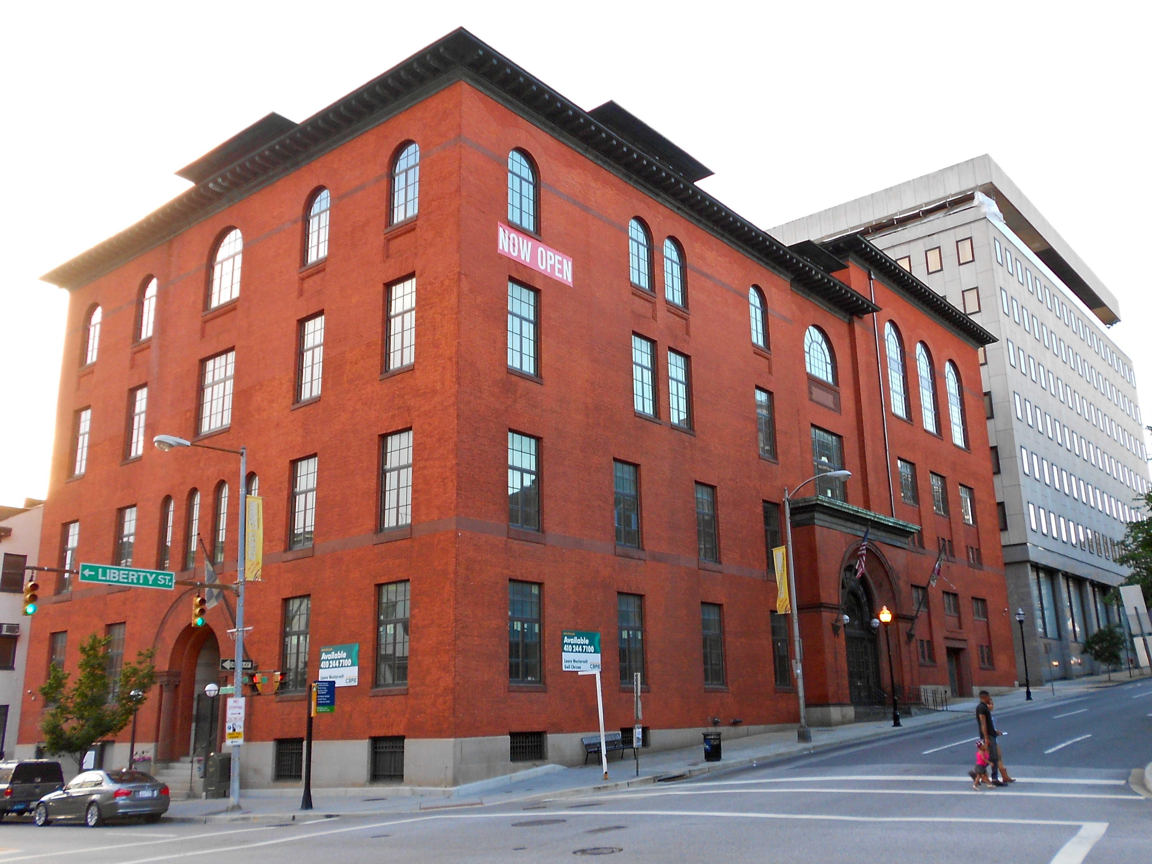 Odd Fellows building in downtown Baltimore, Maryland on the NRHP